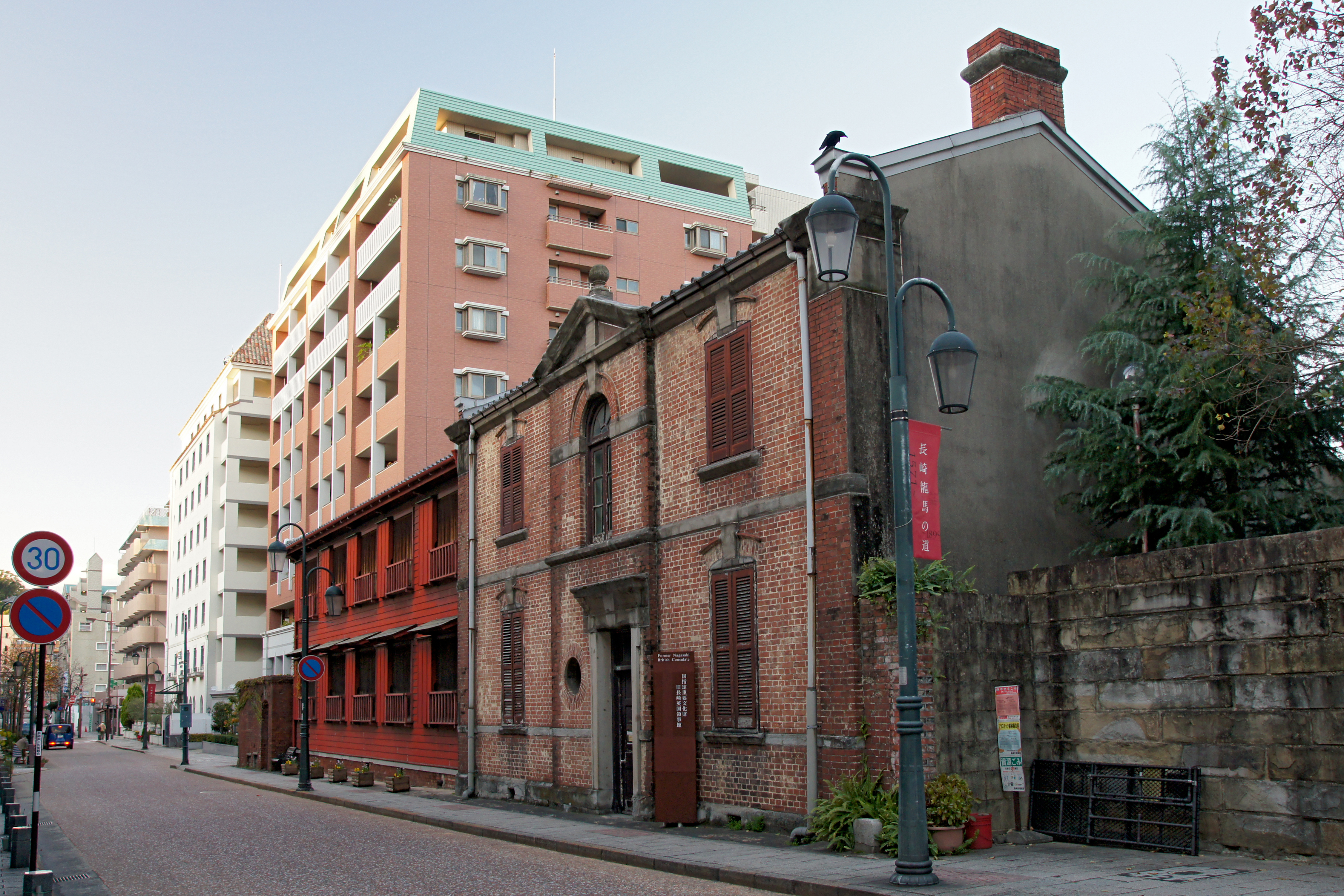 Former_British_Consulate in Nagasaki, Nagasaki prefecture, Japan